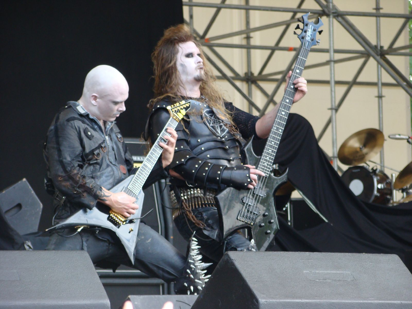 Galvder and Vortex of Dimmu Borgir, Gods of Metal festval, 2007